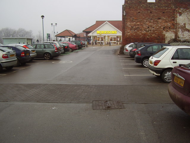 Morrisons Car Park. Morrisons in Malton just by the River Derwent.